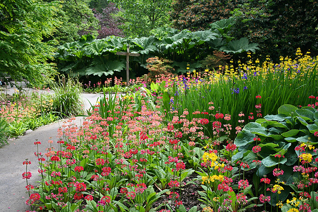 Swansea: Clyne Gardens. The gardens are open to the public